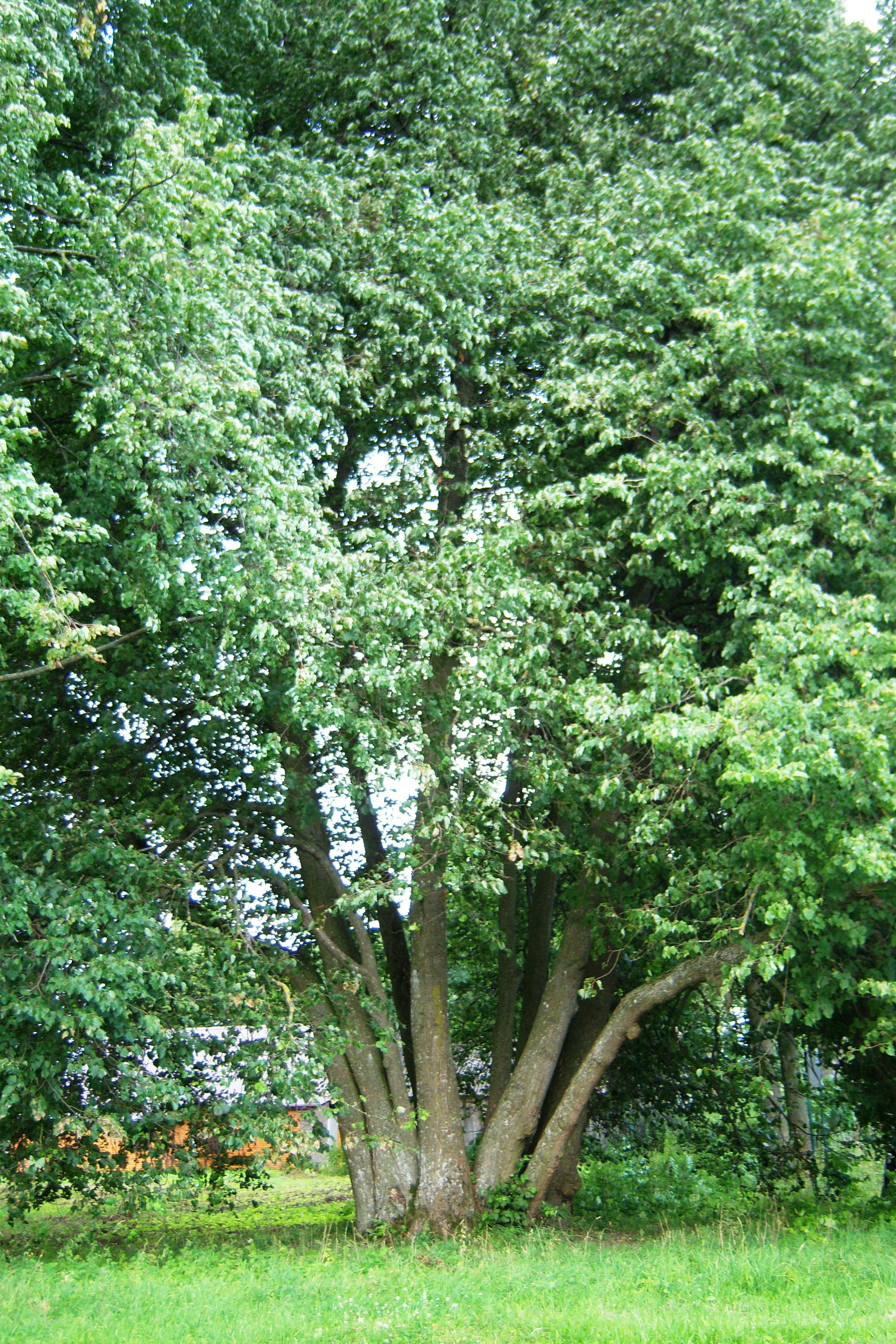 Small-leaved lime (tilia cordata) of 10 trunks, in Antakalnis, Kaišiadorys district, Lithuania